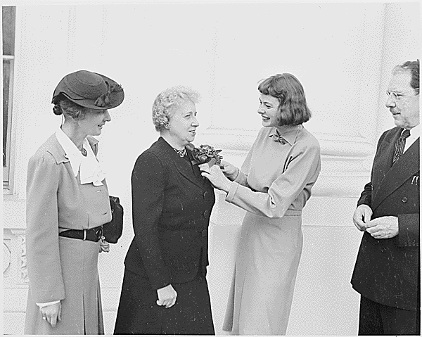 Photograph of actress Ingrid Bergman pinning a corsage on First Lady Bess Truman, who received a community chest award at the White House from a delegation including Miss Bergman, Mrs. Waldron Faulkner, Joseph Steele, and Leigh Ore.